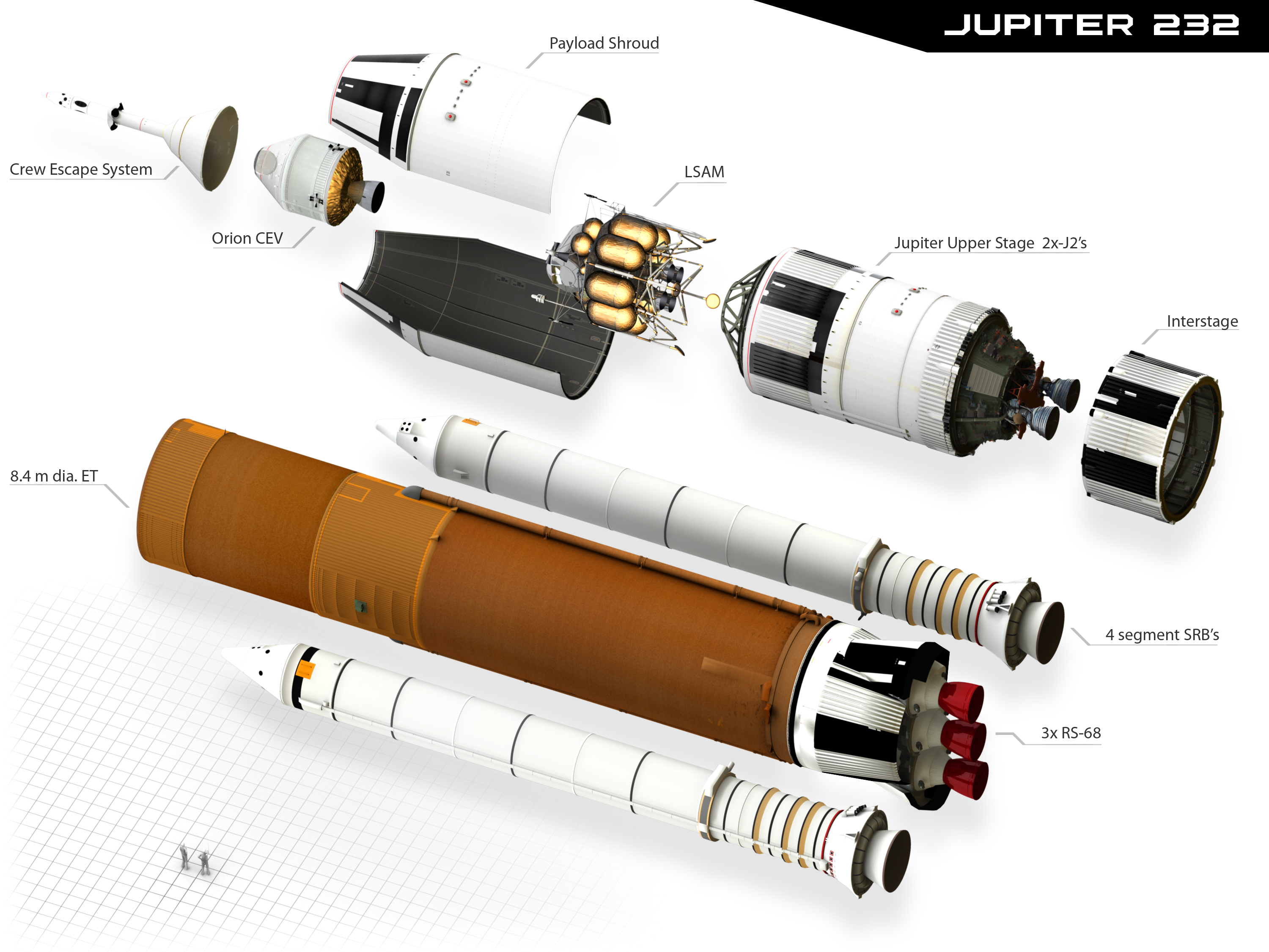 Exploded diagram of the DIRECT Jupiter-232 configuration. Artist: Philip Metschan, DIRECT Team